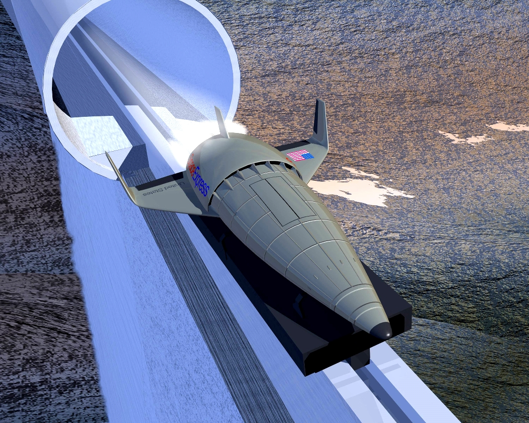 A prior concept for likewise a horizontal launch assist system based on superconducting maglev tech but at far lesser velocity: MagLifter.